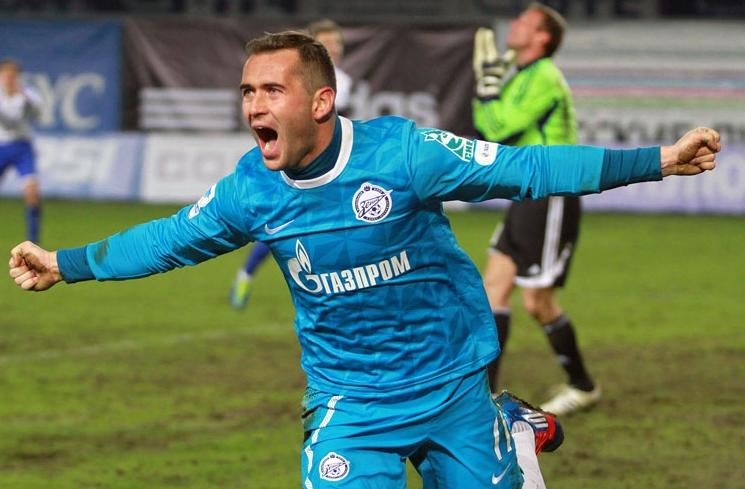 Aleksandr Kerzhakov with FC Zenit in 2012.